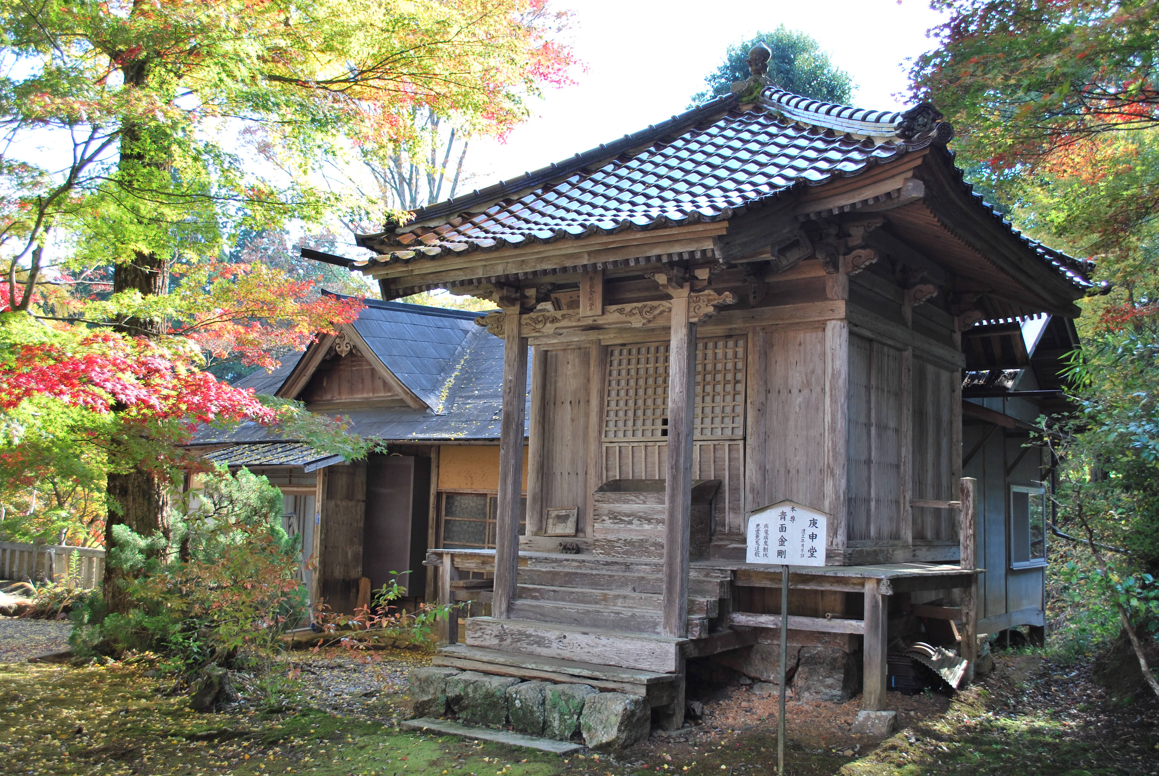 Kōshin-dō, Kiyama-ji